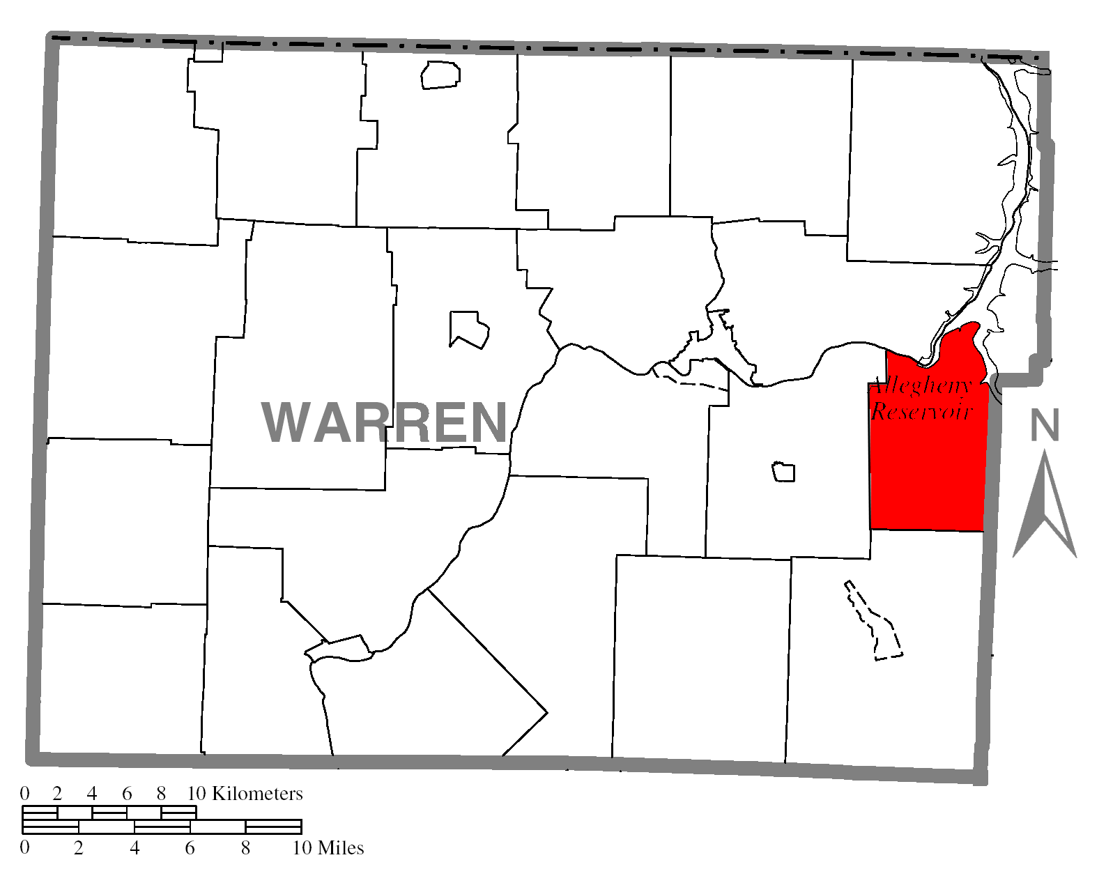 Map of Warren County higlighting former Kinzua Township.